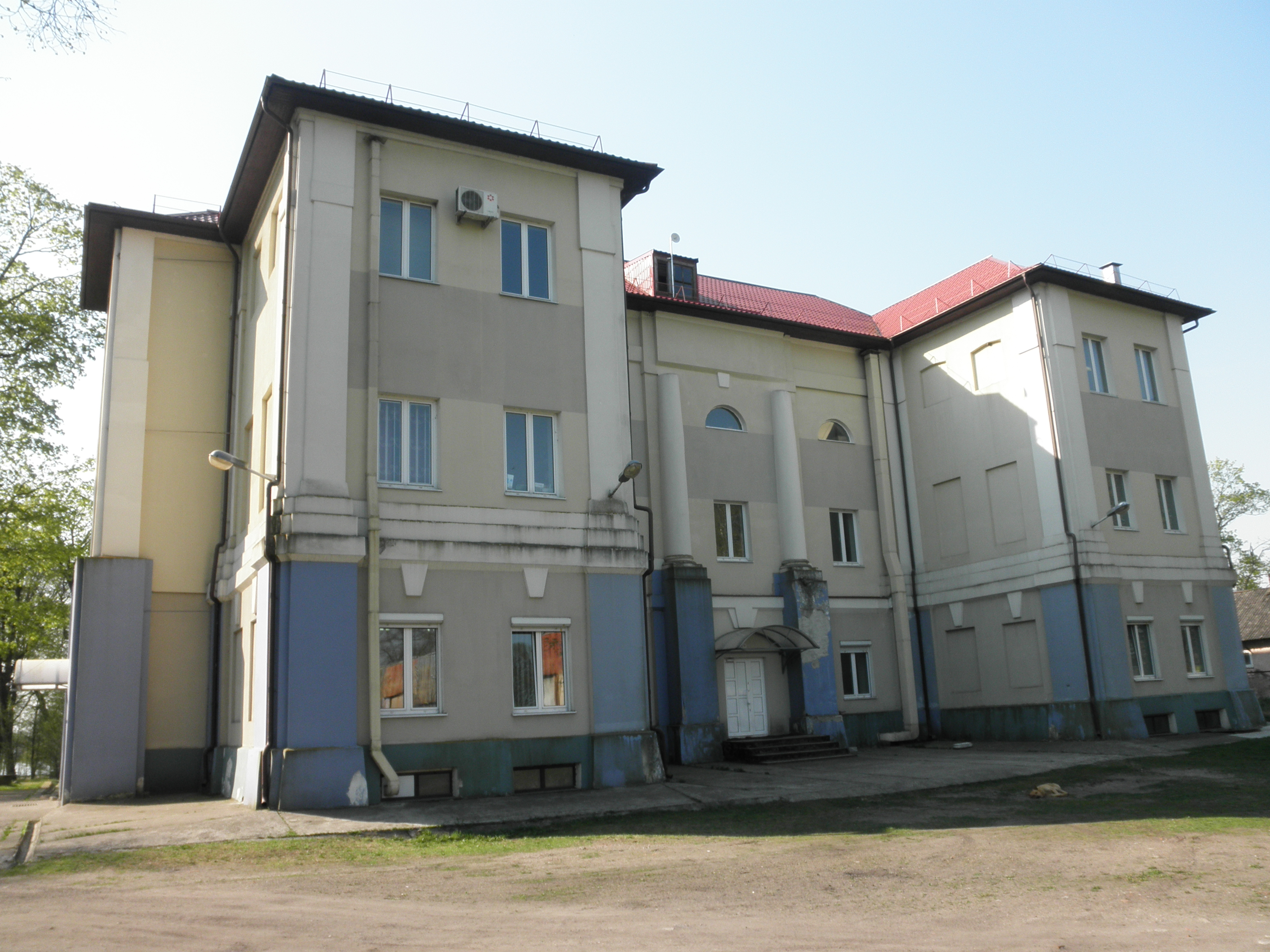 Castle Schloss Holstein near Königsberg or Kaliningrad in Russia